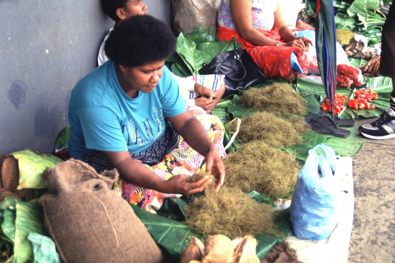 Gracilaria seller in the market in Suva Fiji